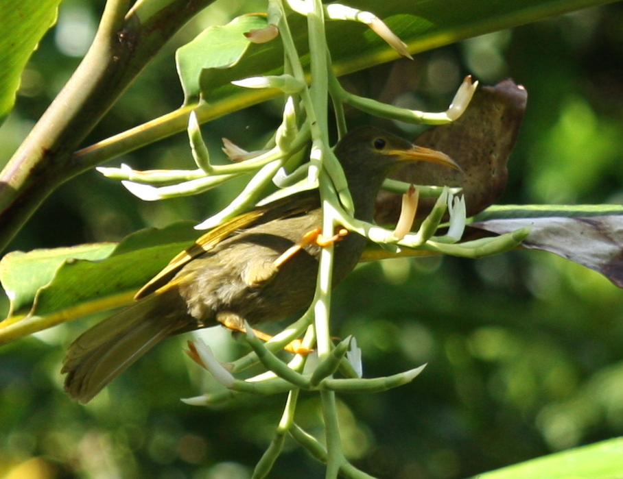 Yellow-billed Honeyeater (Gymnomyza viridis) De Voeux Peak, Taveuni, Fiji Islands